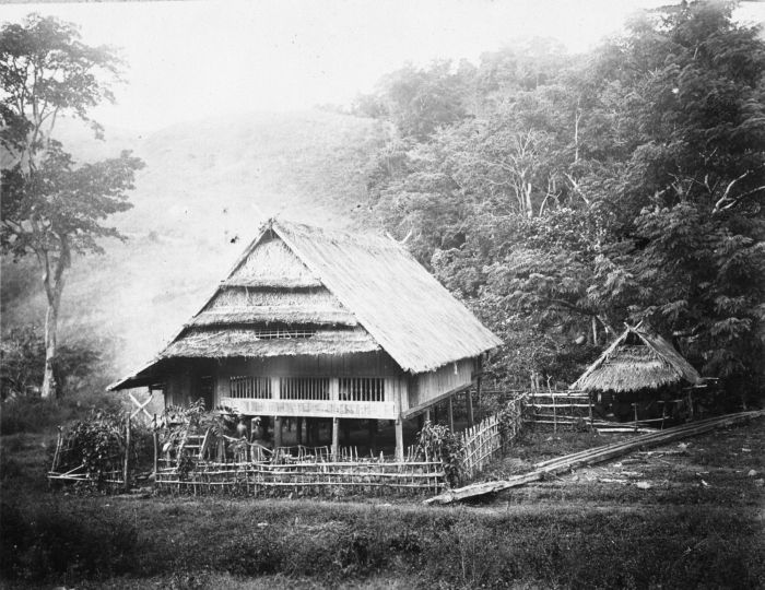 House of a datu on the road from Soppeng to Barroe